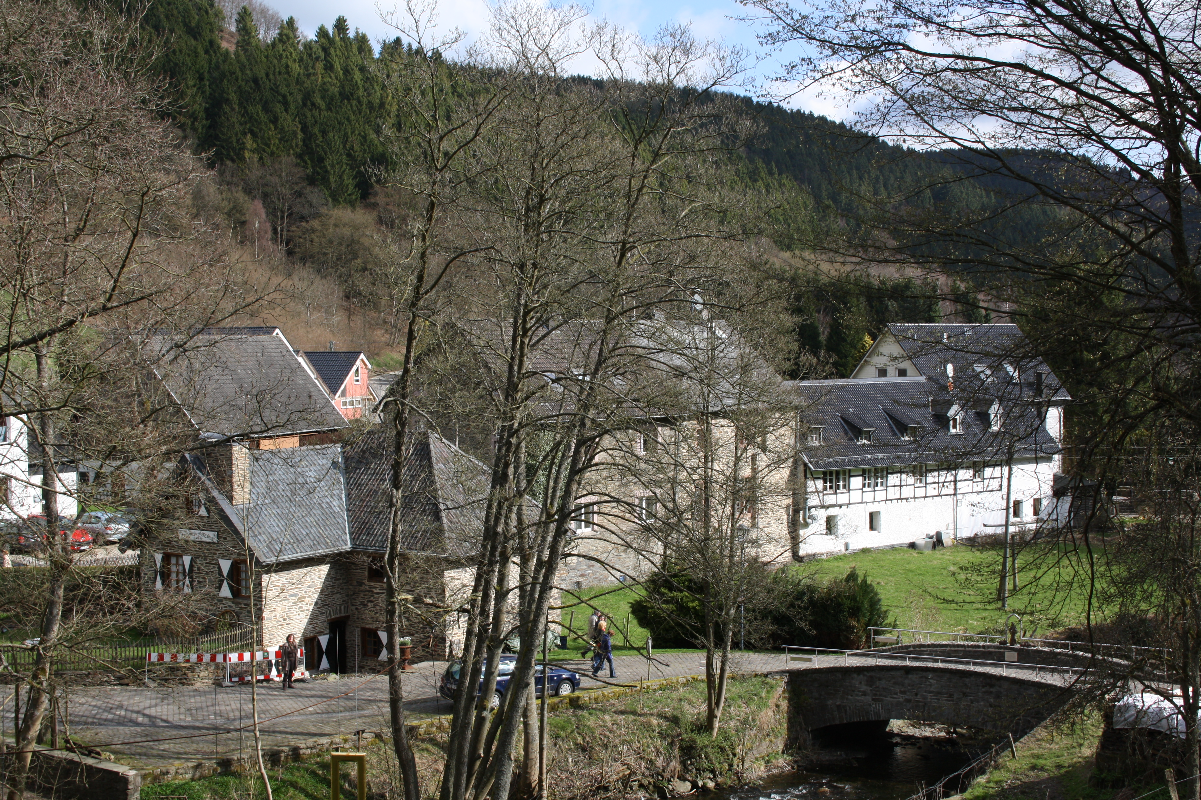 Simonskall (Hürtgenwald, Germany)